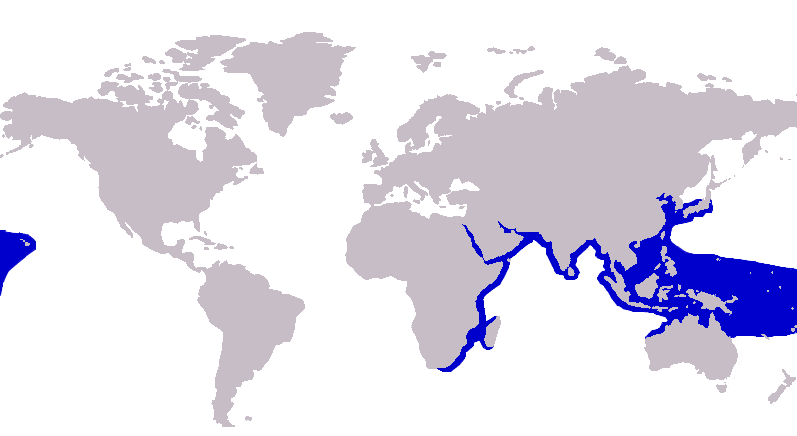 Distribution of blue trevally, Carangoides ferdau using map based on GDFL image